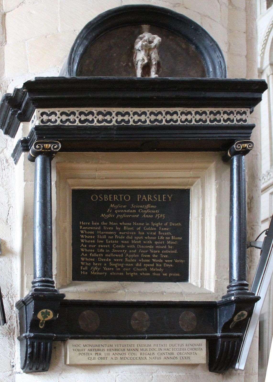 Memorial to Osbert Parsley, Norwich Cathedral